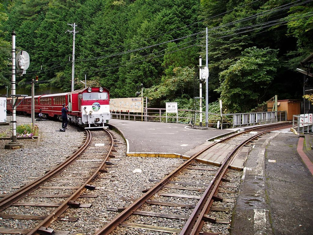 Inside of Ikawa Sta.